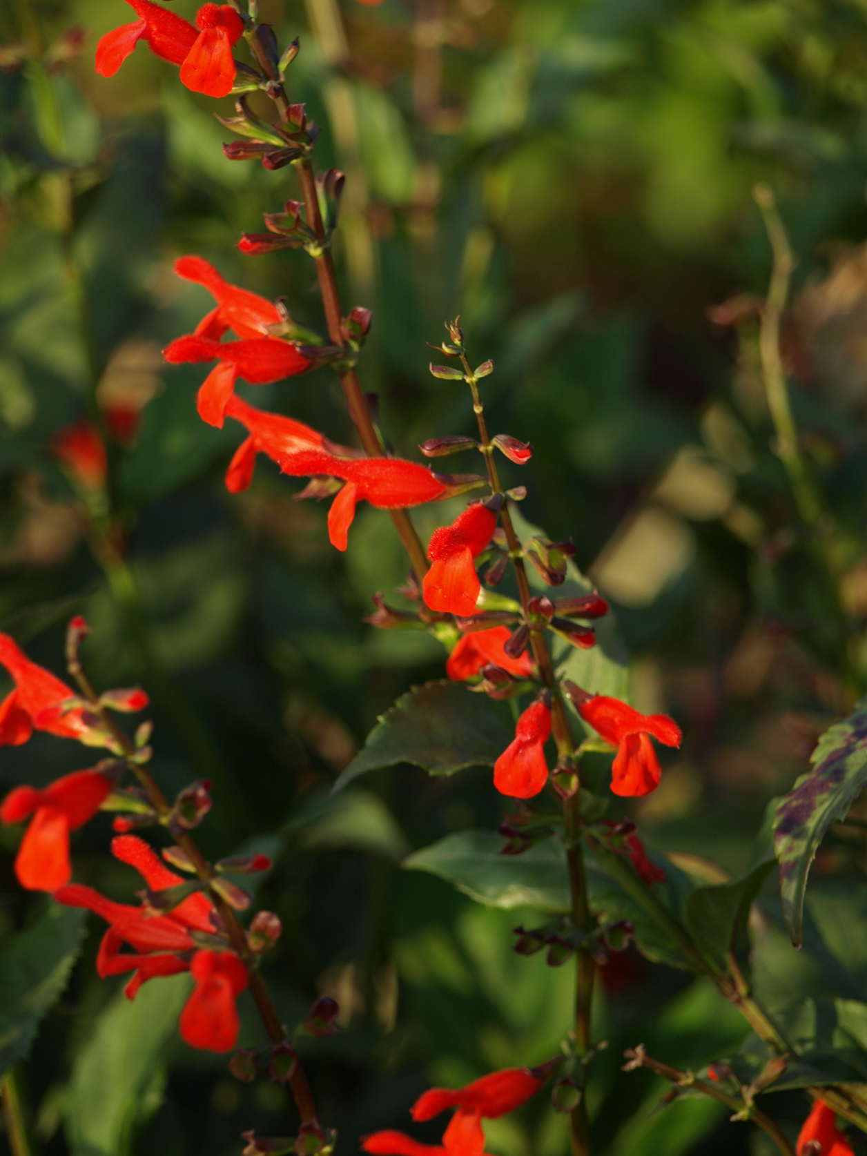 South Miami, Florida, USA.